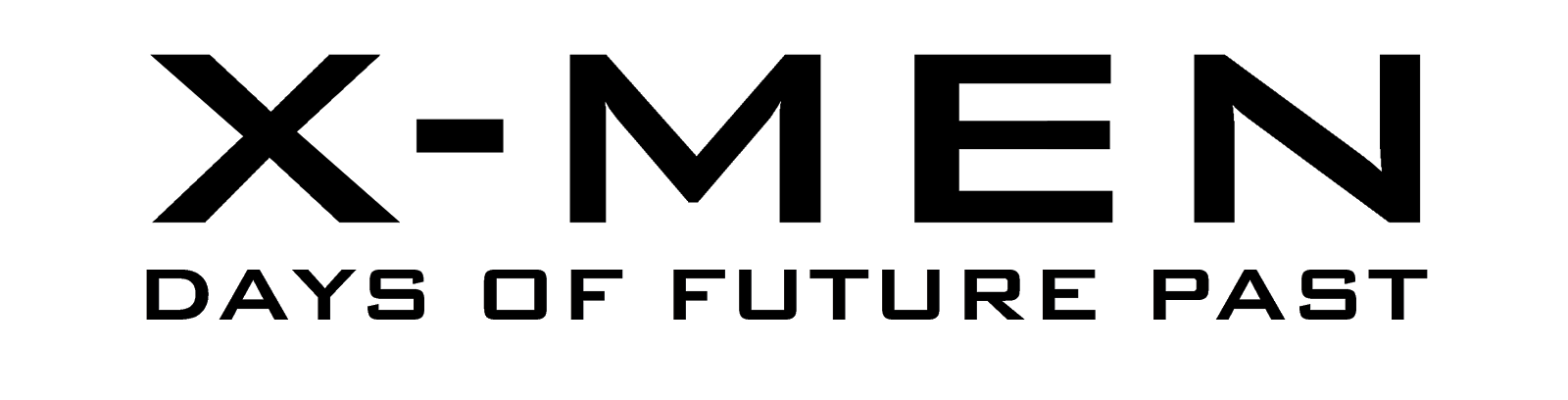 X-Men Days of Future Past Title